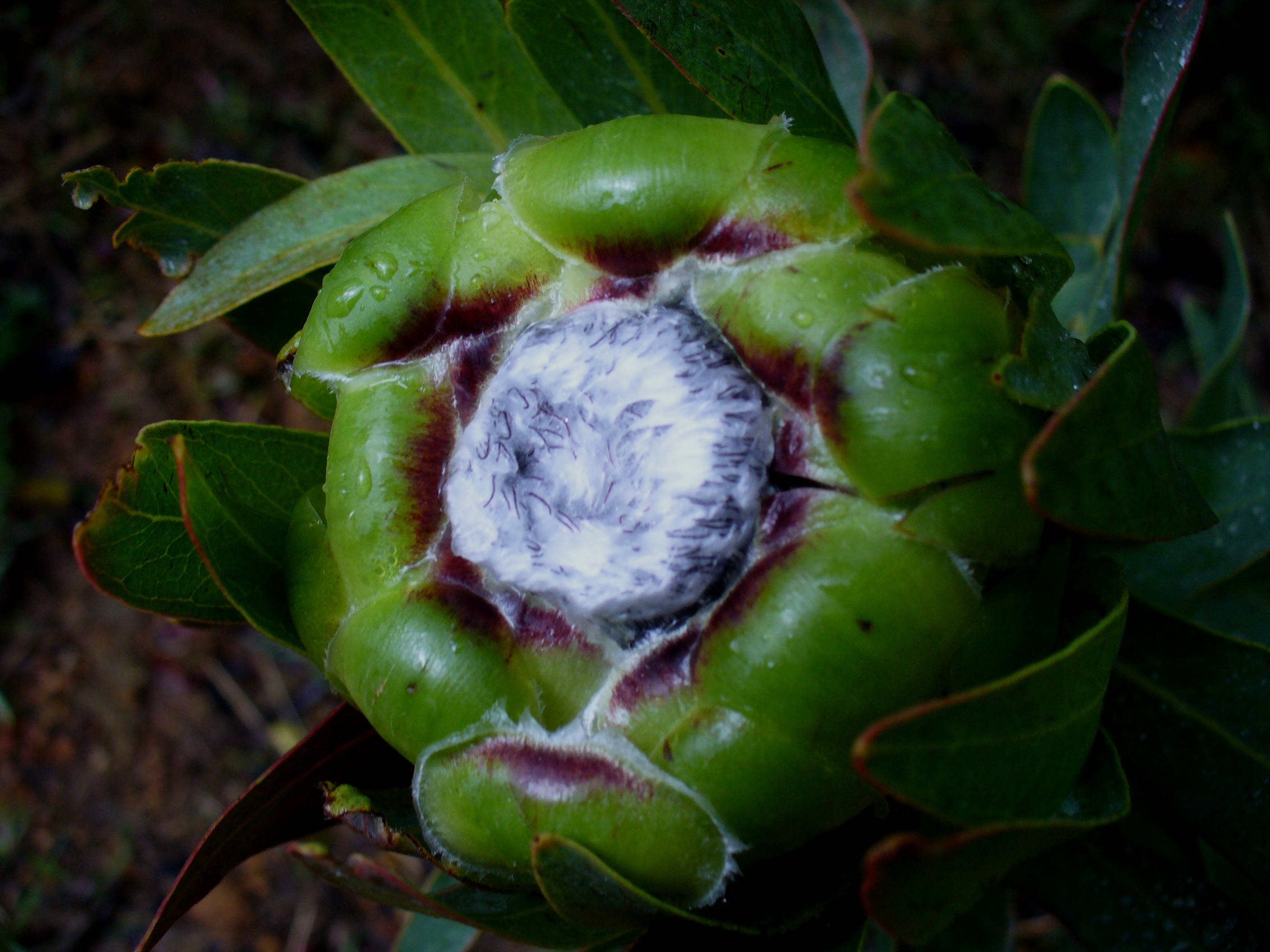 Green sugarbush 2